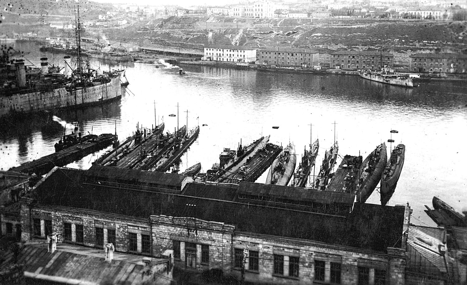 Sevastopol, submarines of the Black Sea Fleet which were captured by the Germans in May 1918 (or summer).